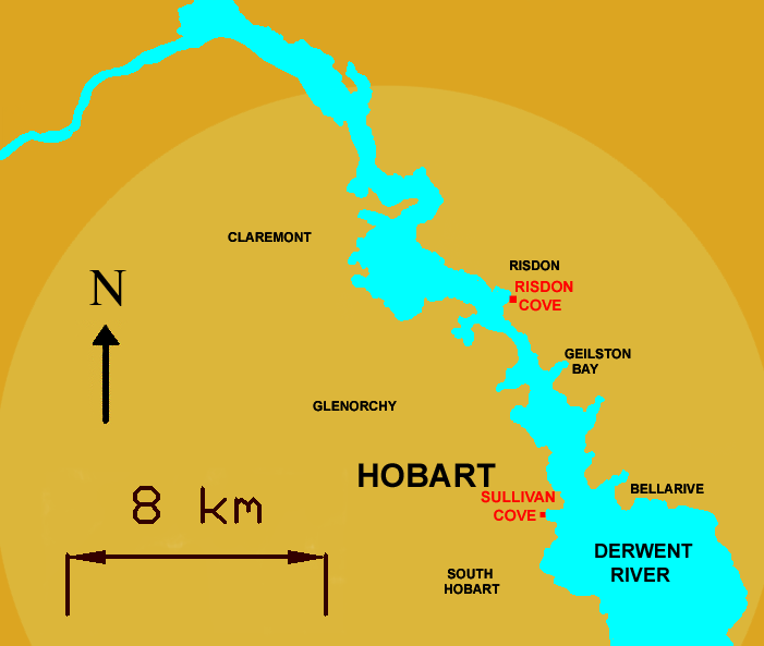 Map of Hobart, Australia showing locations of Risdon and Sullivan Coves.